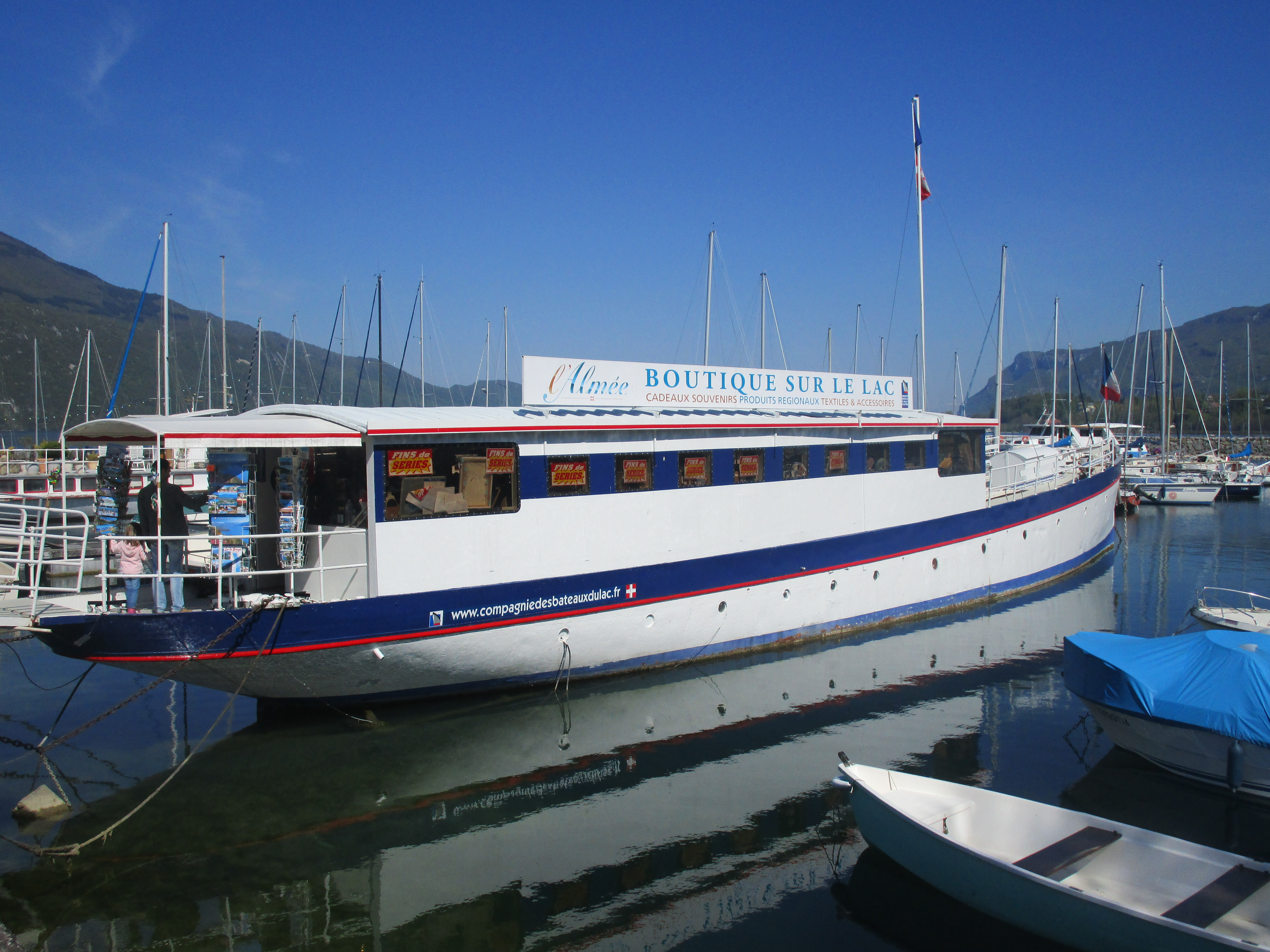 The ship L’Almée moored at Aix-les-Bains on April 22, 2015.